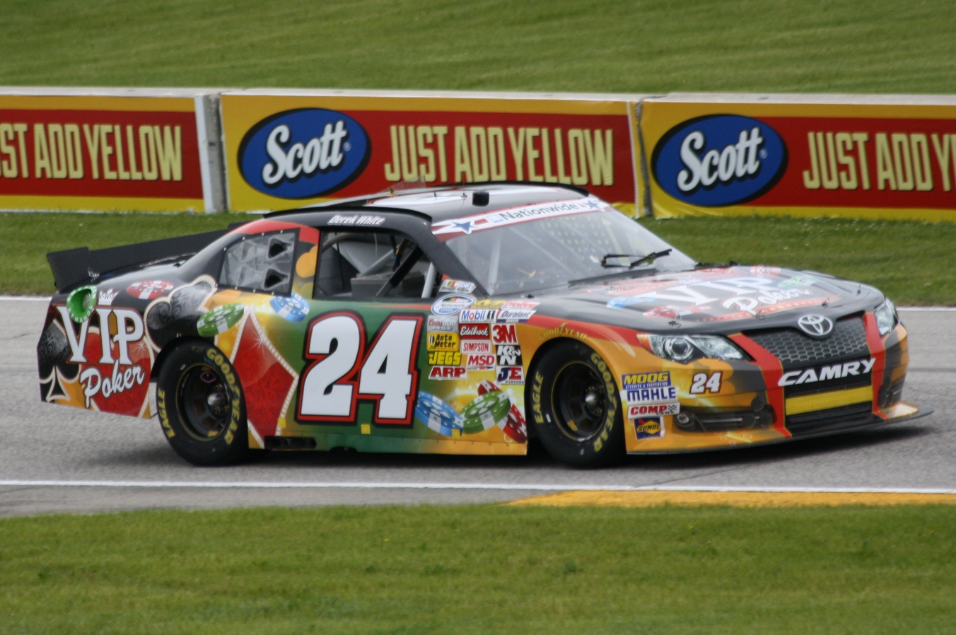 The NASCAR Nationwide car of Derek White during the w:2013 Johnsonville Sausage 200 at Road America.